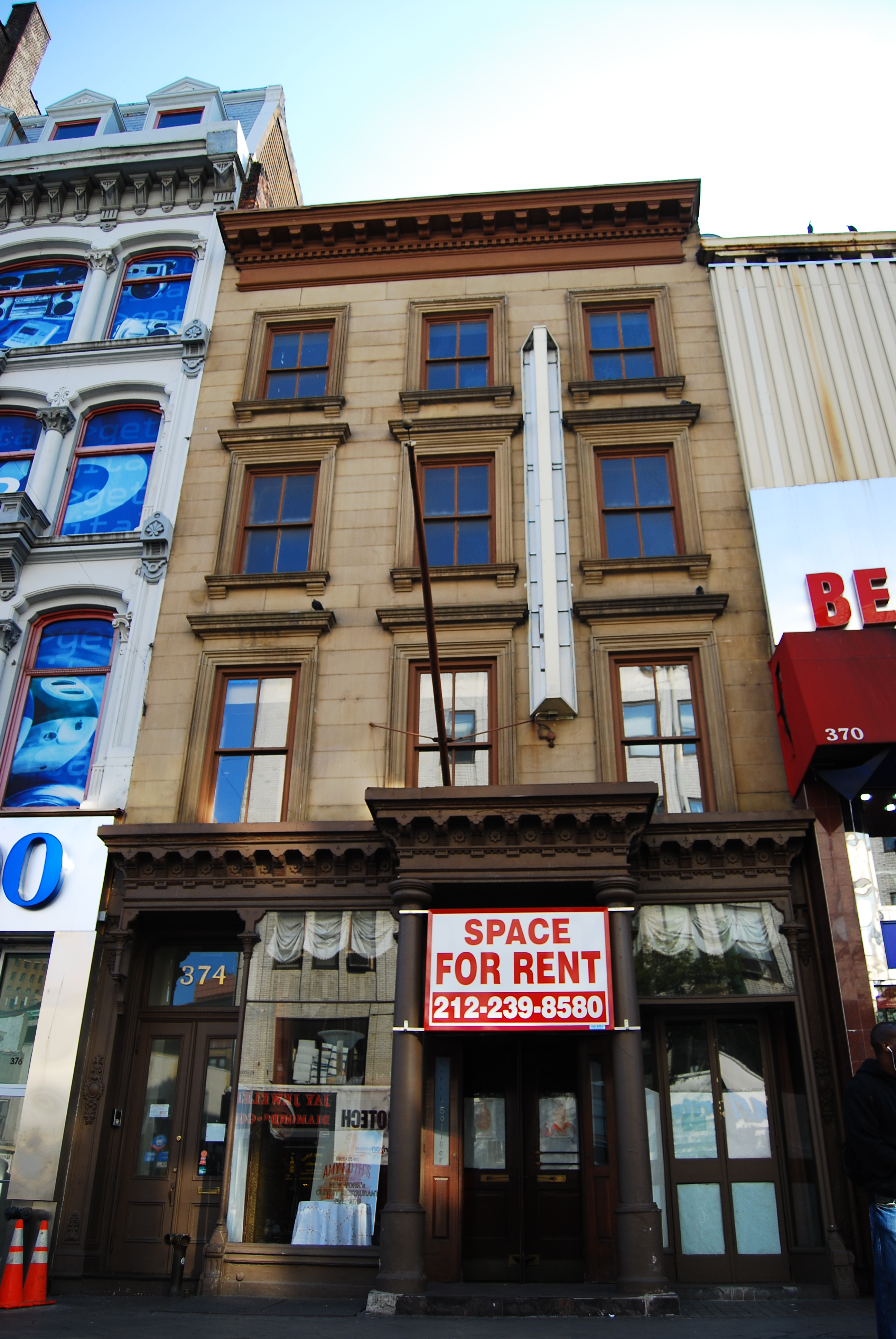 This photo is of Wikis Take Manhattan goal code J7, Gage and Tollner.